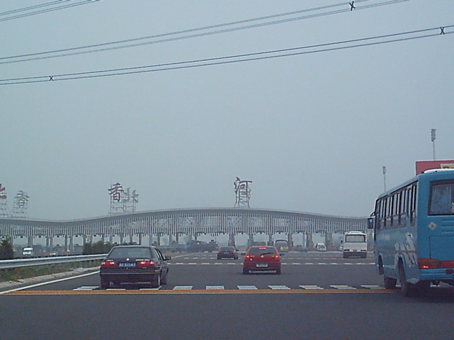 Jingshen Expressway - Xianghe Toll Gate